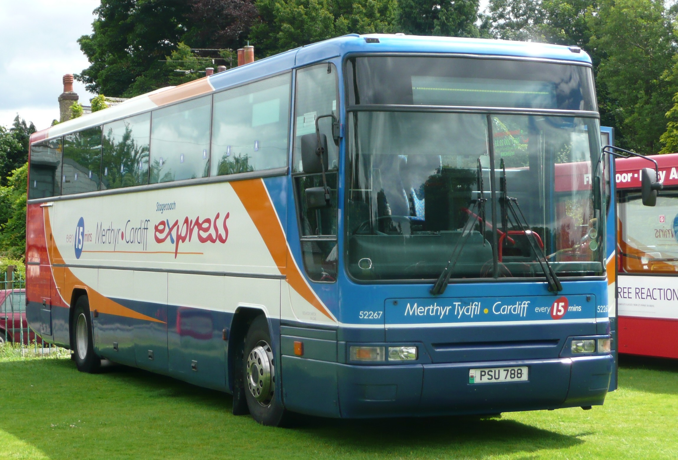 Stagecoach in South Wales 52267 (PSU 788), a Volvo B10M/Plaxton Expressliner at the 2008 Alton bus rally at Anstey Park.